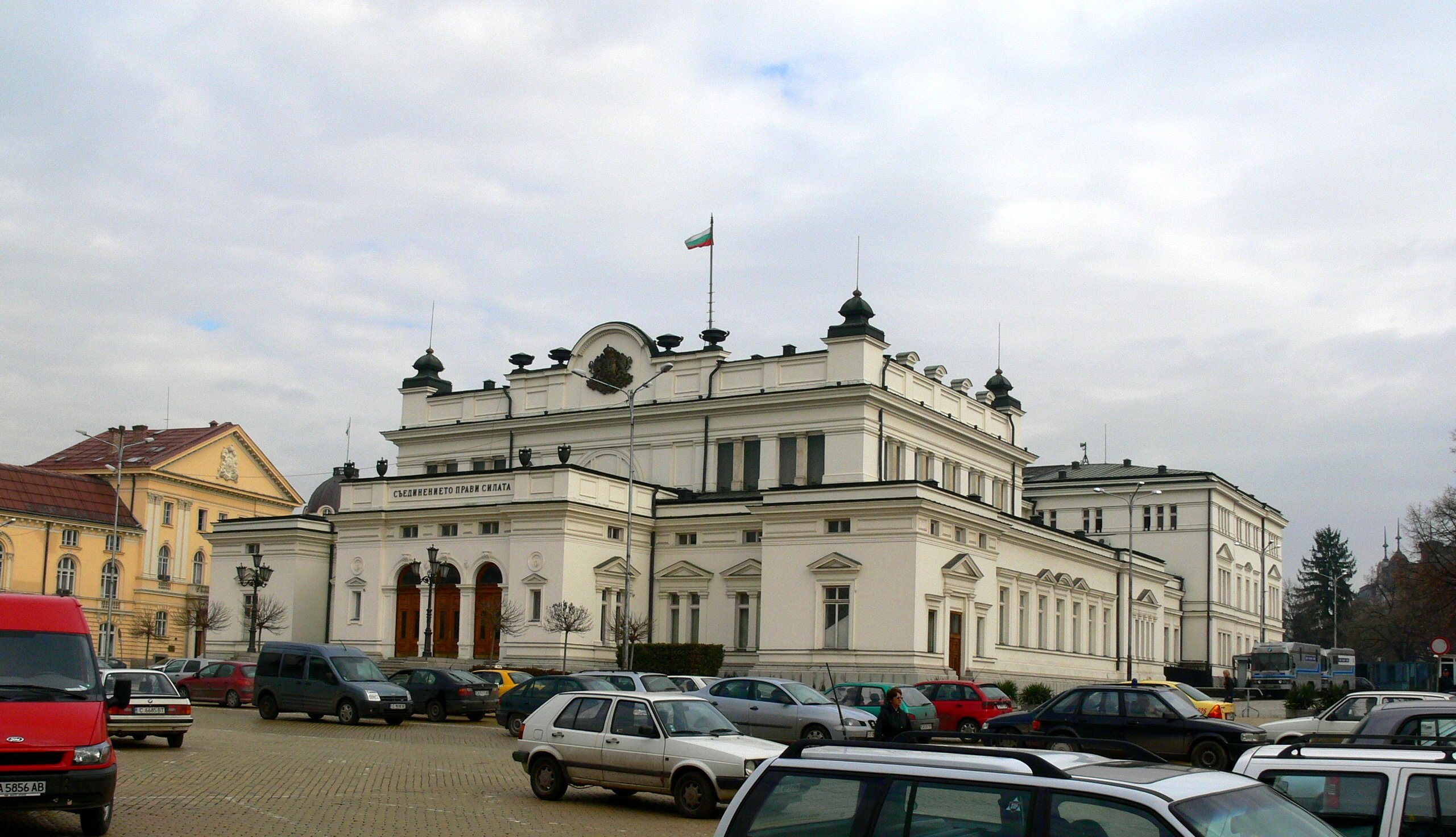 The National Assembly of Bulgaria, Sofia, Bulgaria